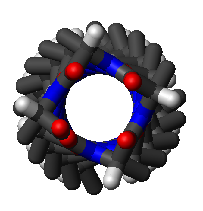 Top view of a pi helix. Made with MOLMOL.